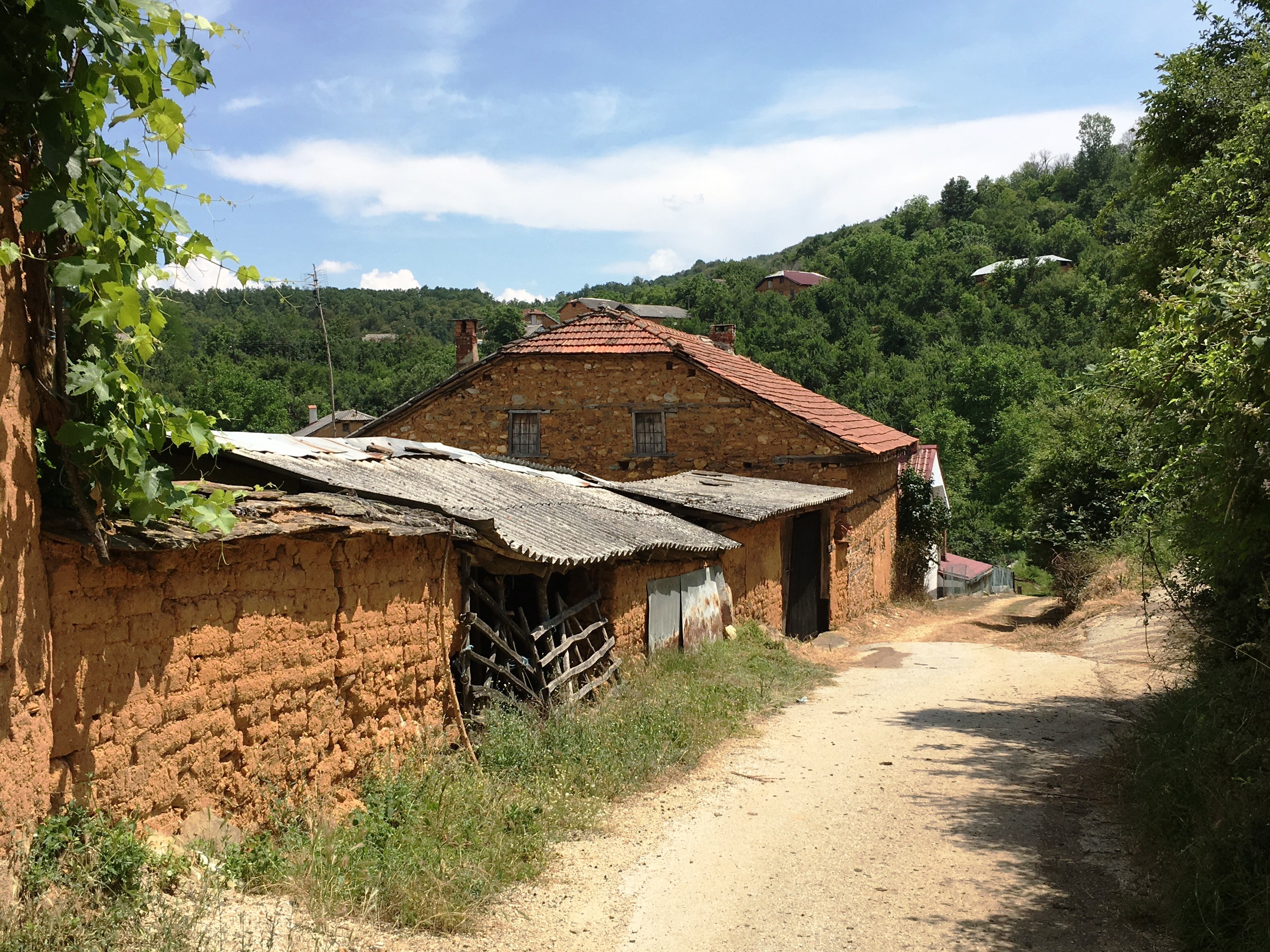 Houses in the village of Drenovo